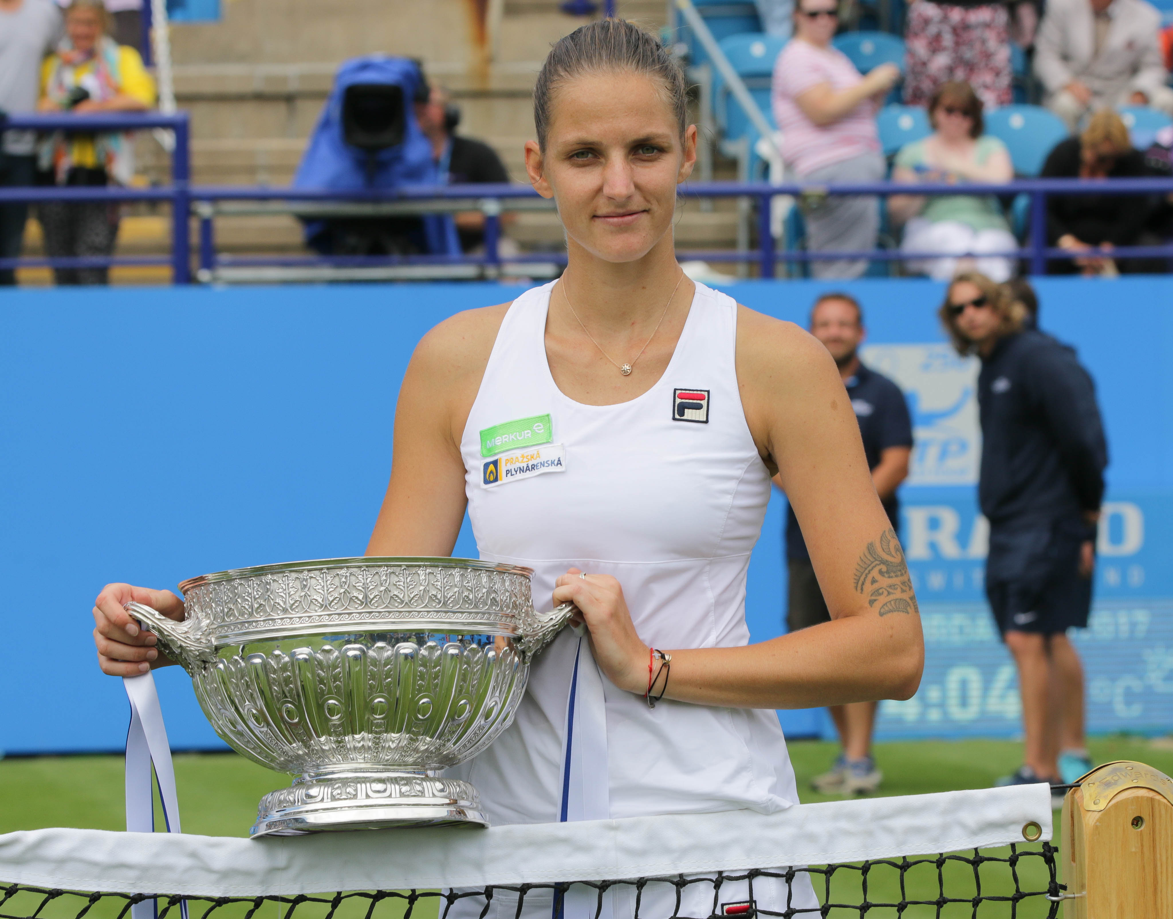 Aegon International Women's Final 2017 Pliscova v Wozniacki-943.jpg